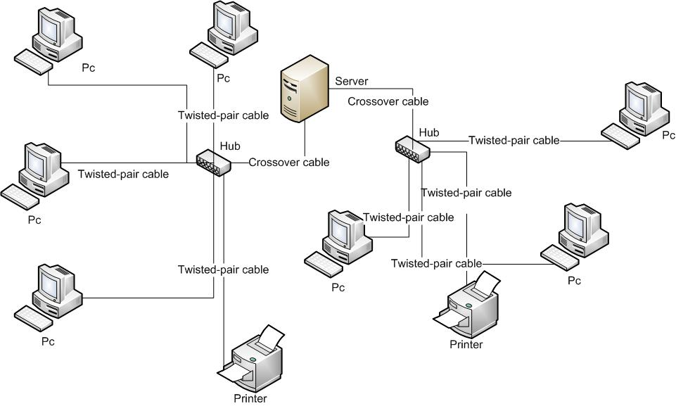 An example of a computer network